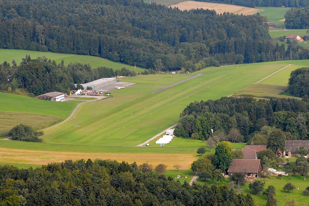 Aerial view of Buttwil Airfield taken from a Helicopter